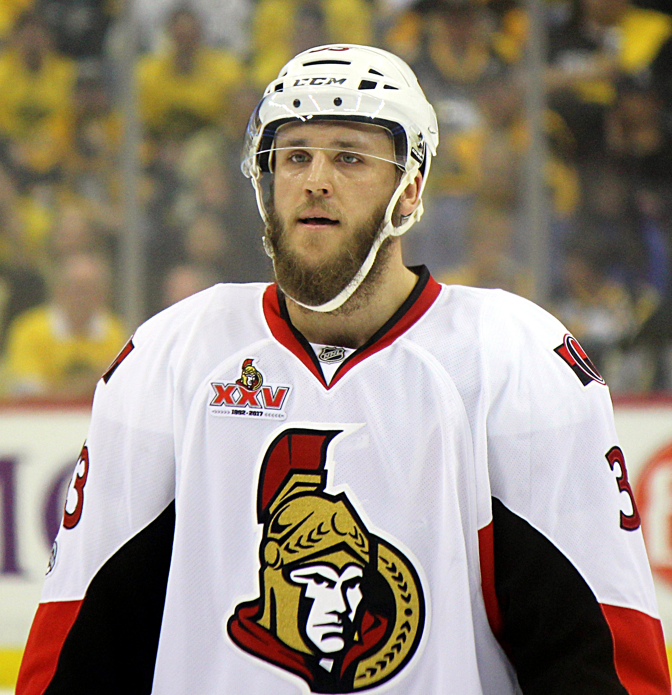 Ottawa Senators defenseman Fredrik Claesson during a playoff game against the Pittsburgh Penguins, May 13, 2017, at PPG Paints Arena in Pittsburgh, PA.